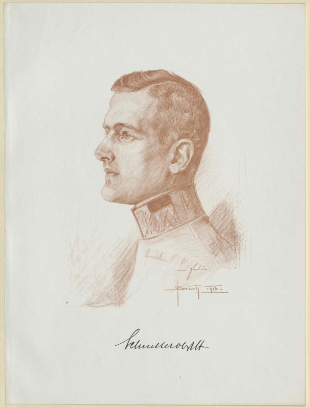 Karl Schneller (1878-1942), Austrian officer and author